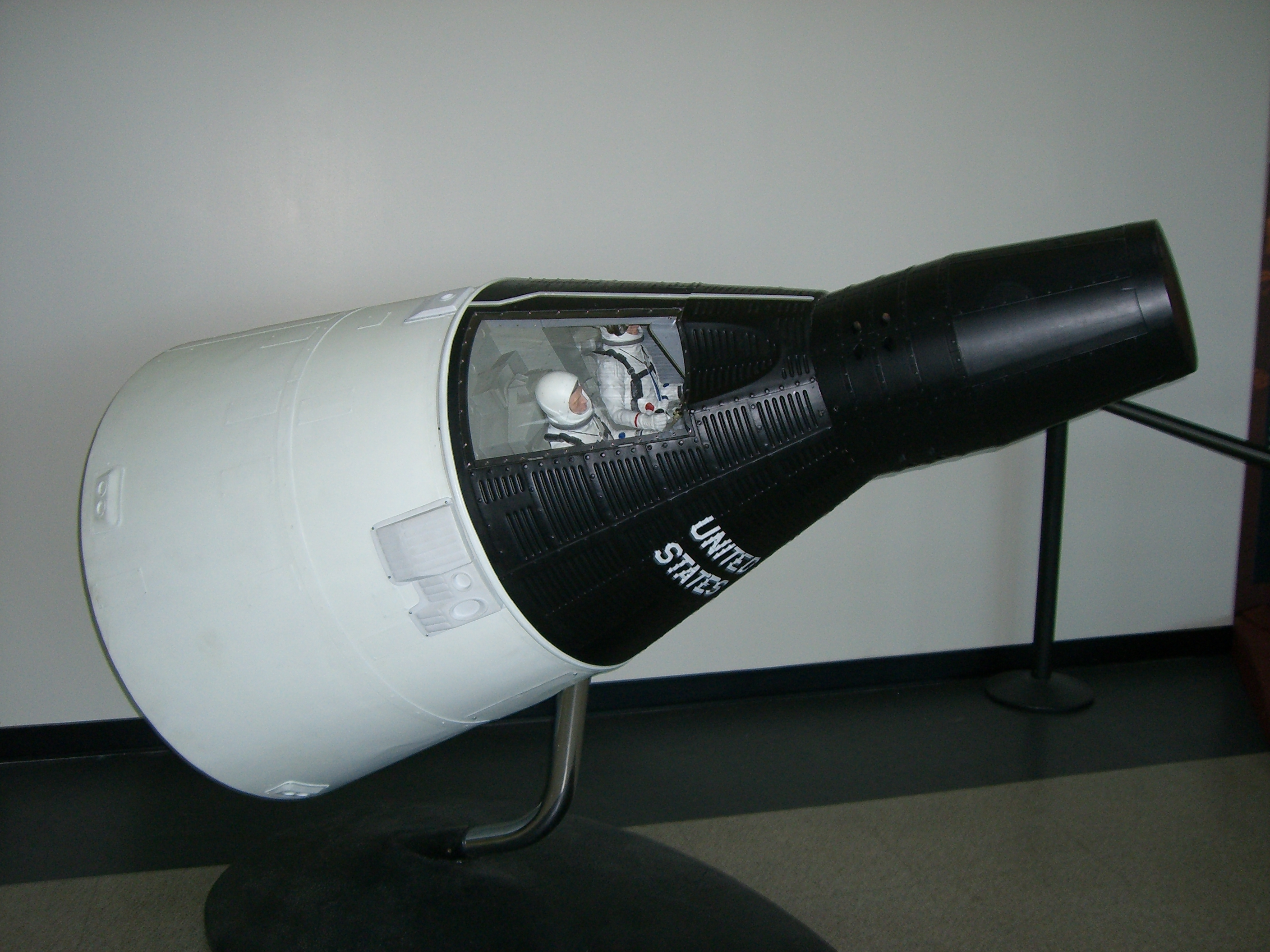 Gemini scale model from the NASA exhibits at Terminal D at George Bush Intercontinental Airport